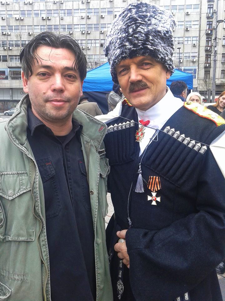 Serbian screenwriter Dejan Stojiljković and Russian actor Aleksandar Galibin on the set of TV show "Shadow over Balkans". Српски (ћирилица): Српски сценариста и писац Дејан Стојиљковић и руски глумац Александар Галабин на сету телевизијске серије "Сенке над Балканом".